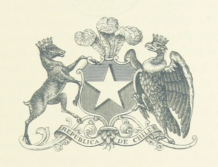 Image taken from: Title: "Diccionario geográfico de la República de Chile ... Segunda edición corregida y aumentada" Author: SOLANO ASTA-BURUAGA Y CIENFUEGOS, Francisco. Shelfmark: "British Library HMNTS 10480.eee.6.", "British Library HMNTS Maps.200.c.2." Page: 7 Place of Publishing: Santiago de Chile Date of Publishing: 1899 Issuance: monographic Identifier: 003434832 Note: The colours, contrast and appearance of these illustrations are unlikely to be true to life. They are derived from scanned images that have been enhanced for machine interpretation and have been altered from their originals. Following this or the link above will take you to the British Library's integrated catalogue. You will be able to download a PDF of the book this image is taken from, as well as view the pages up close with the 'itemViewer'. Click on the 'related items' to search for the electronic version of this work. Click here to see all the illustrations in this book and click here to browse other illustrations published in books in the same year. Please click on the tags shown on the right-hand side for other ways to browse the illustrations.